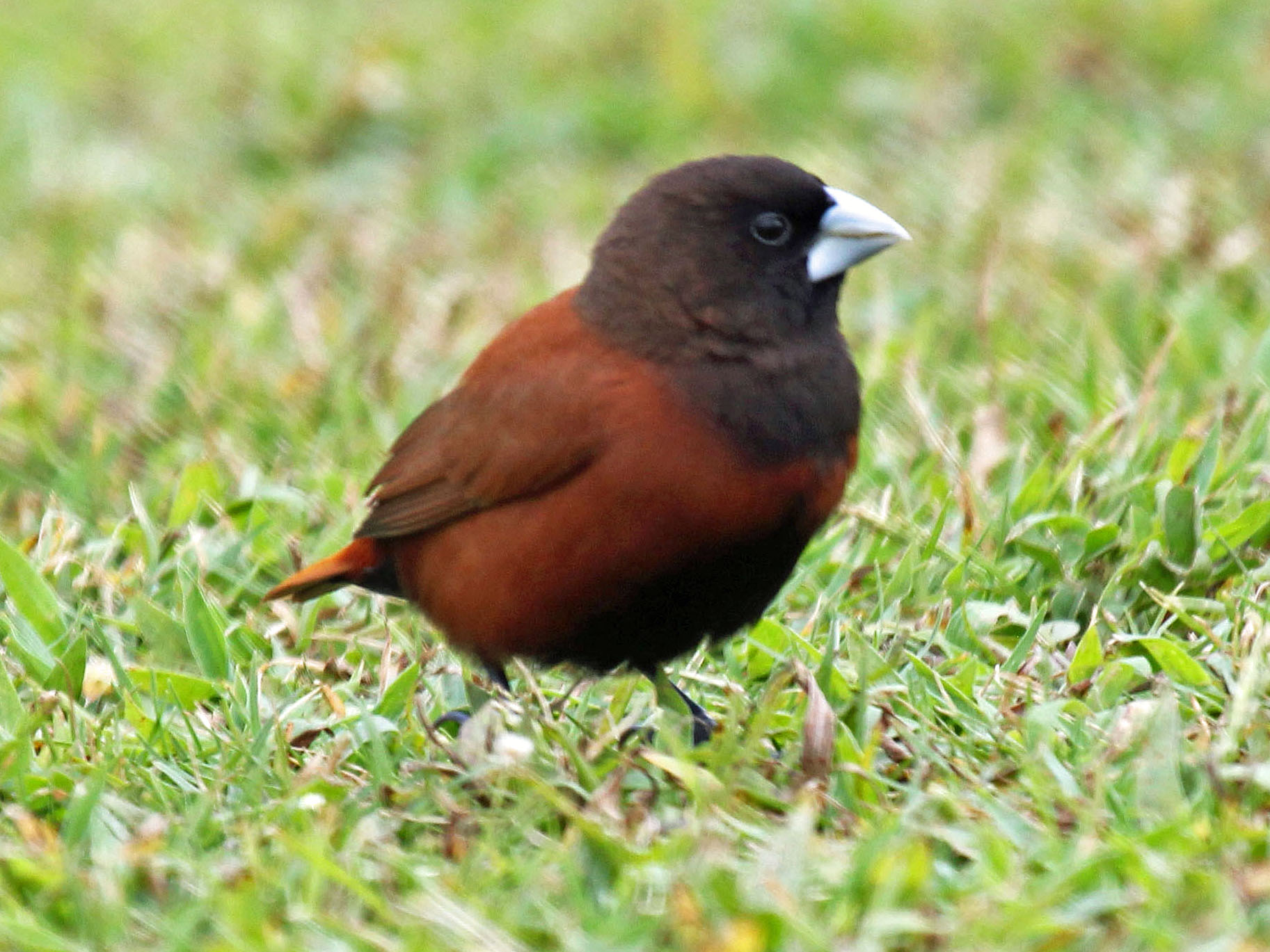 Black-headed Munia, also Chestnut Mannikin (Lonchura atricapilla) - Kauai, Hawaii